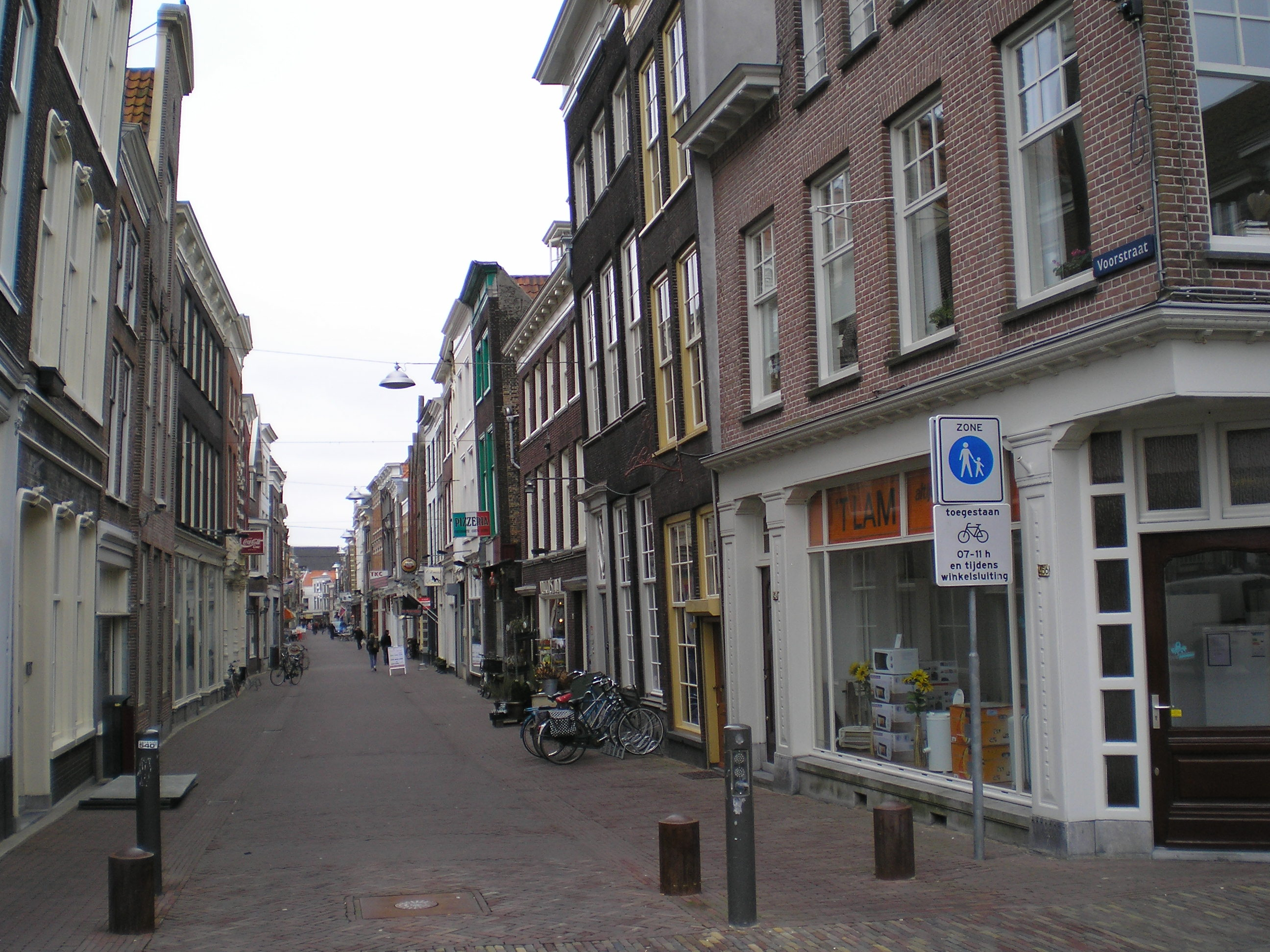 Voorstraat in Dordrecht in the Netherlands